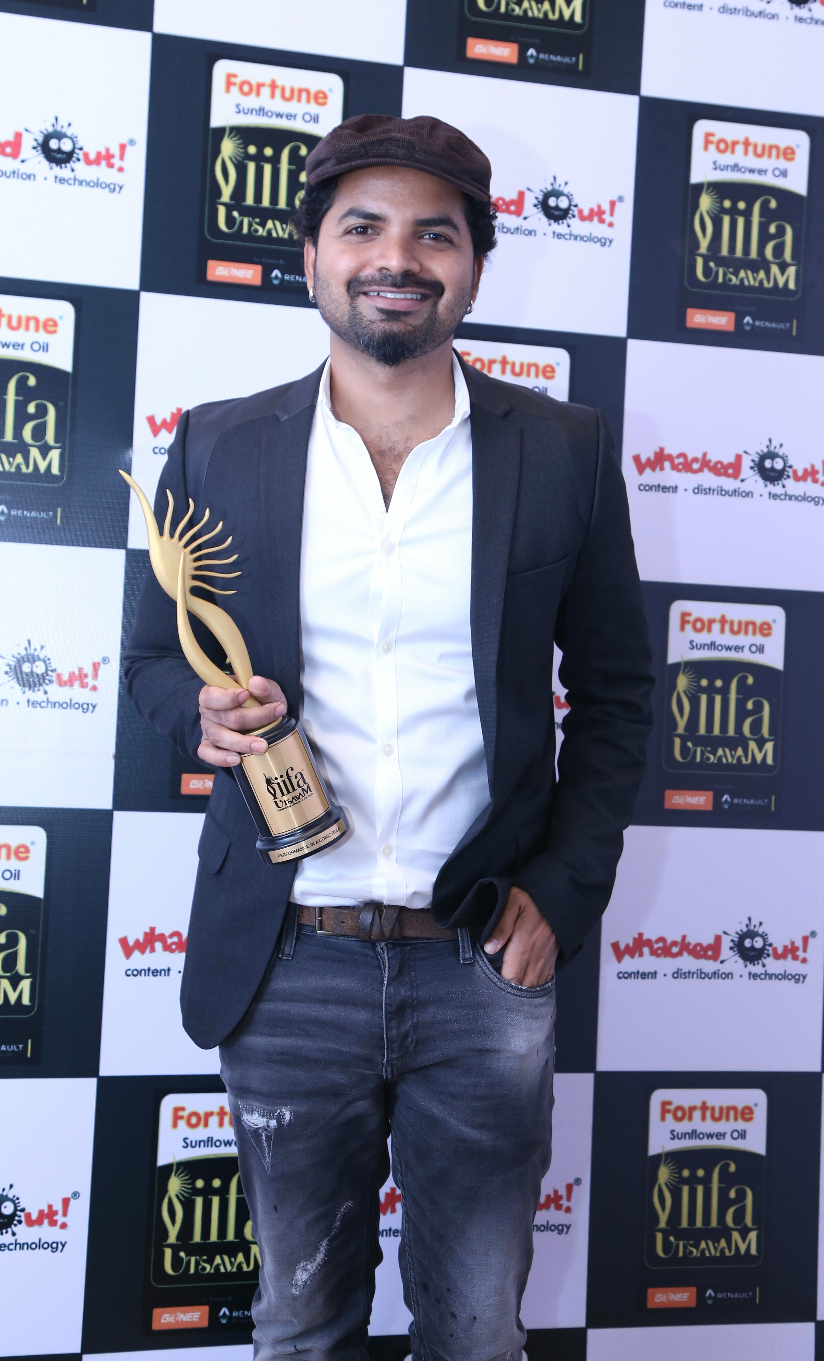 Vinayforrt at iifa award 2016 for best best comedian.